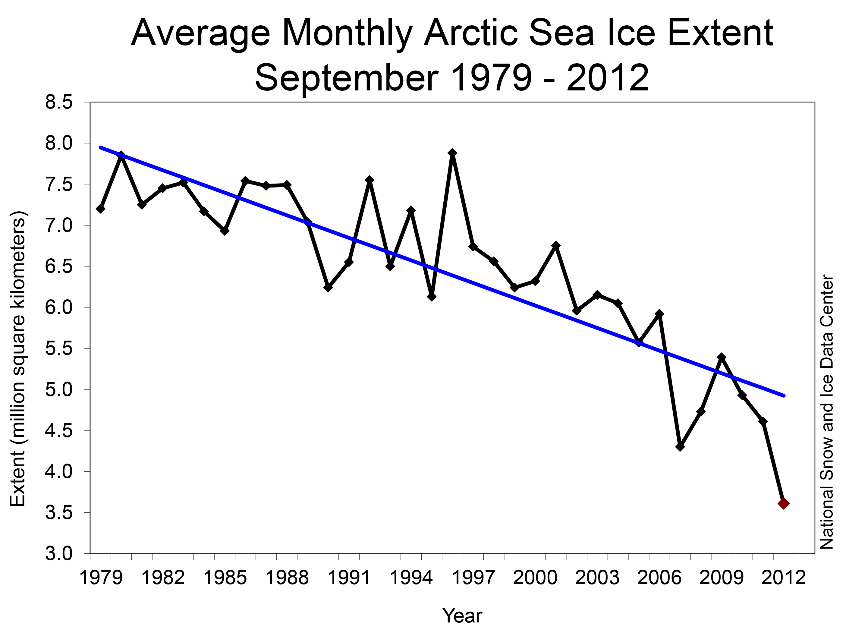 Monthly September ice extent for 1979 to 2012 shows a decline of 13.0% per decade.